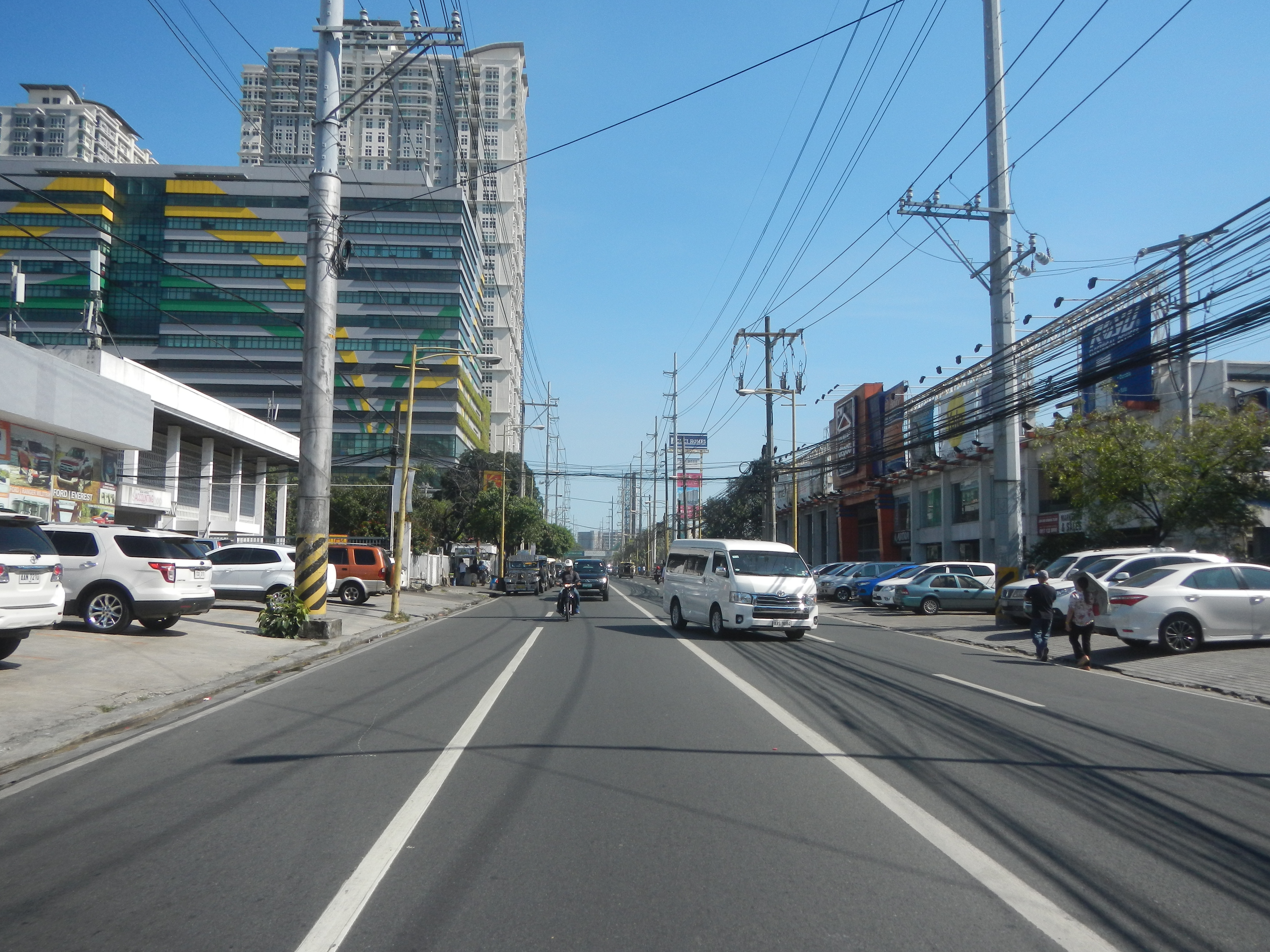 Makati Makati Central Business occupies List of barangays of Metro Manila, Legislative districts of Makati Barangays San Lorenzo 14°33'4"N 121°1'13"E San Lorenzo Village, Makati City San Lorenzo 14°33'4"N 121°1'13"E beside Magallanes 14°32'8"N 121°1'6"E Bangkal 14°32'37"N 121°0'48"E Makati City Chino Roces Avenue Pasong Tamo Box Culvert KM Sta.6+542 15 metric tons load limit along Chino Roces Avenue (Pasong Tamo), Bangkal, Makati City EDSA-Magallanes Tunnel P 12.0 million cost Rehabilitation from Magallanes Interchange EDSA railway station Magallanes MRT Station to Pasong Tamo Extension, Makati City corner South Luzon Expressway corner EDSA (road) Epifanio de los Santos Avenue (EDSA, Makati City - Pasay City section) Barangay 183 (Pasay) 14°30'57"N 121°0'58"E Metro Manila Skyway Mabuhay Pasay City Nichols Field Road Interchange Bridge Sta. Limit -11+053 Load limit 20 metric tons and Sta. Limit -11+394 Load limit 20 metric tons Lawton Avenue Barangay Western Bicutan, Taguig City (Note: Judge Florentino Floro, the owner, to repeat, Donor Florentino Floro of all these photos hereby donate gratuitously, freely and unconditionally all these photos to and for Wikimedia Commons, exclusively, for public use of the public domain, and again without any condition whatsoever).